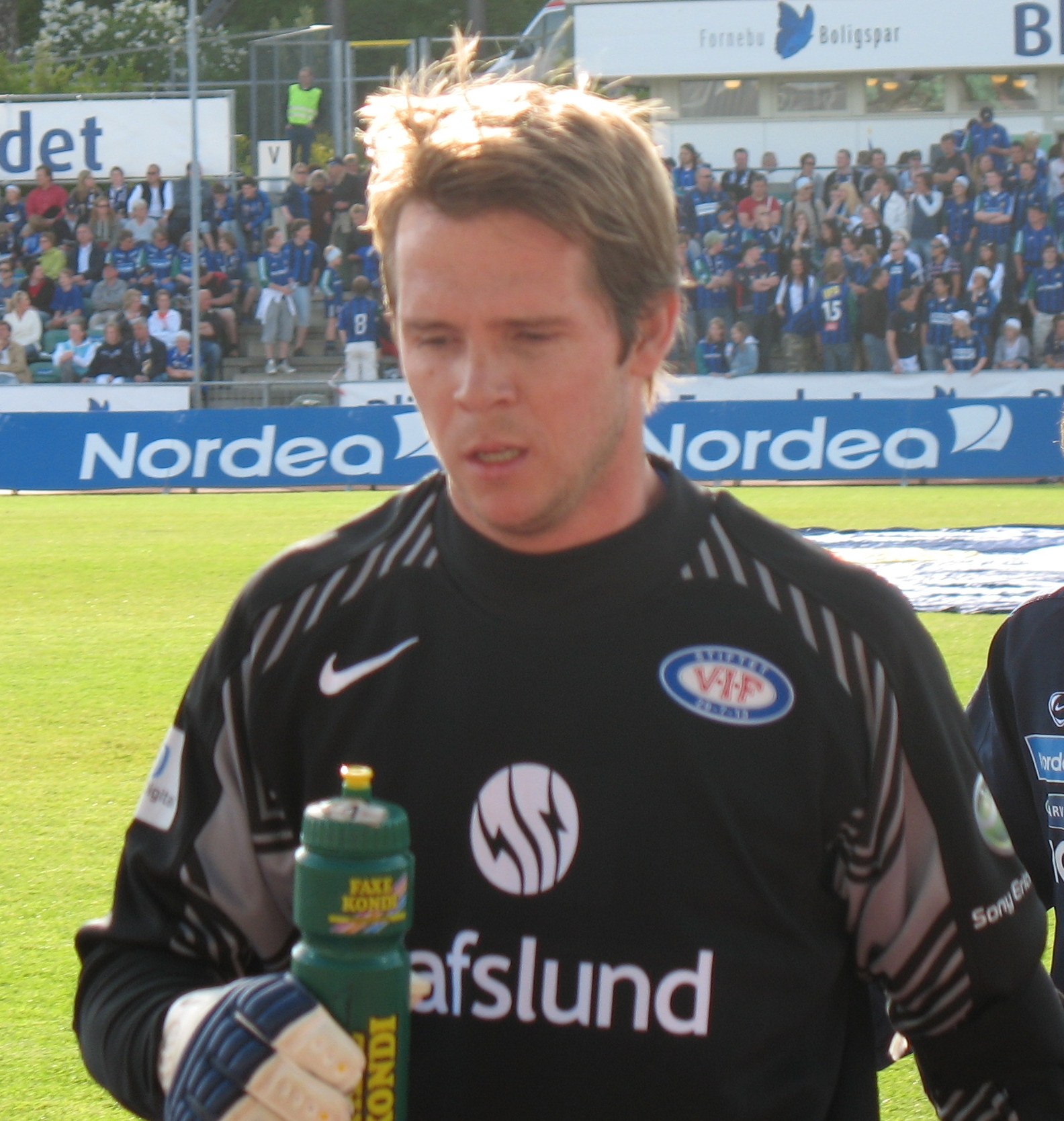 Icelandic footballer Árni Gautur Arason.